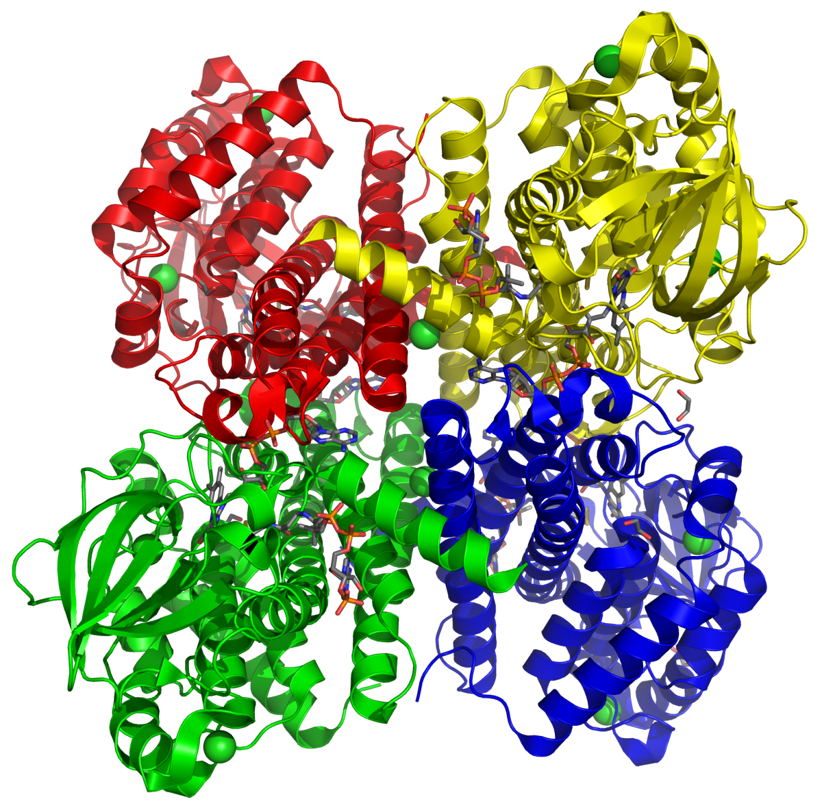 Cartoon diagram of human short/branched-chain acyl-CoA dehydrogenase (ACADSB) in complex with flavin adenine dinucleotide and coenzyme A persulfide. Chloride ions visible as green spheres. Created using PyMOL ( and GIMP.